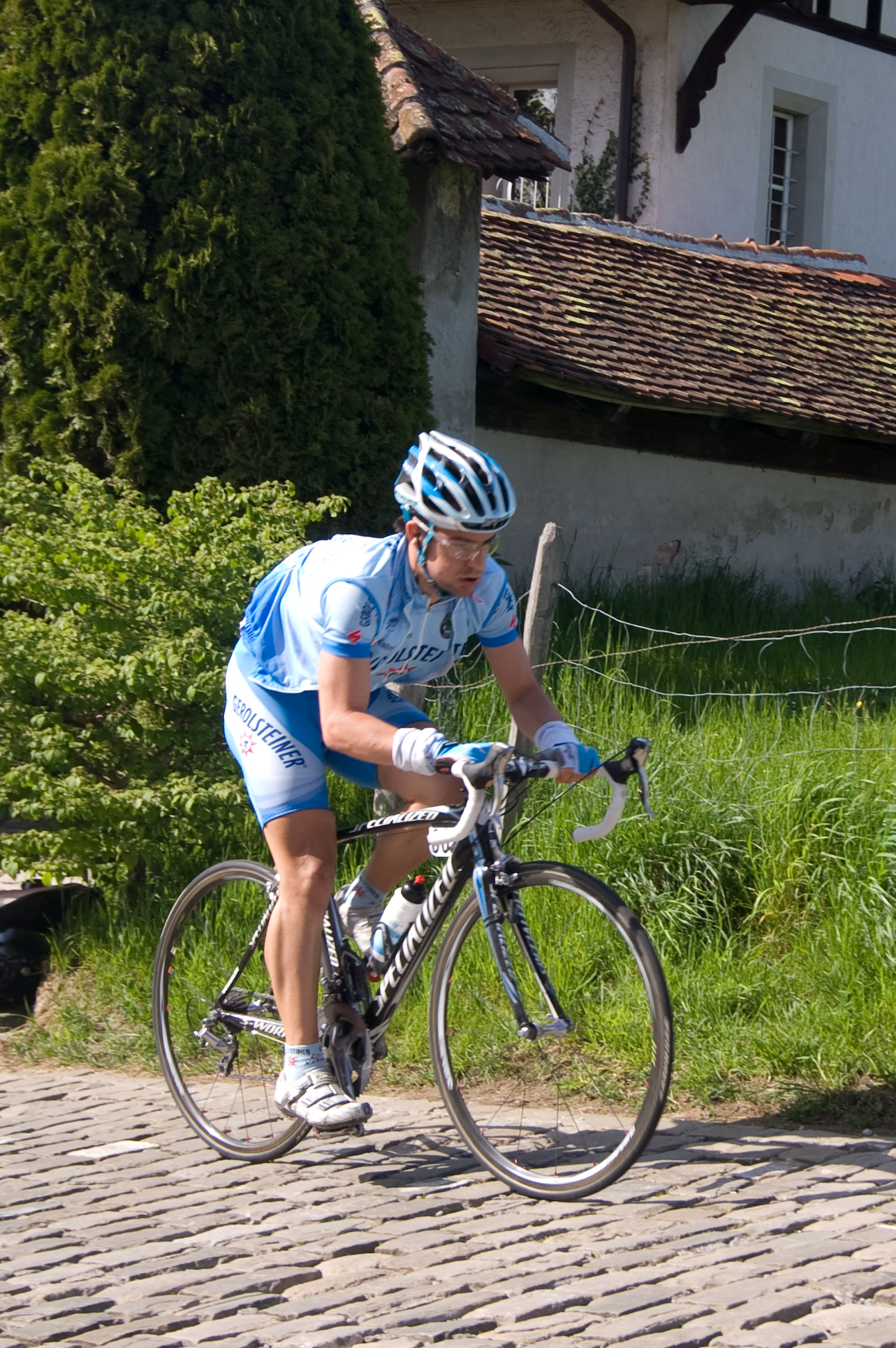 Carlo Westphal, Tour de Romandie 2008, 2nd stage.